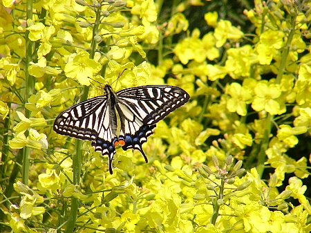 a swallowtailed butterfly on flower of broccoli050416butterfly1